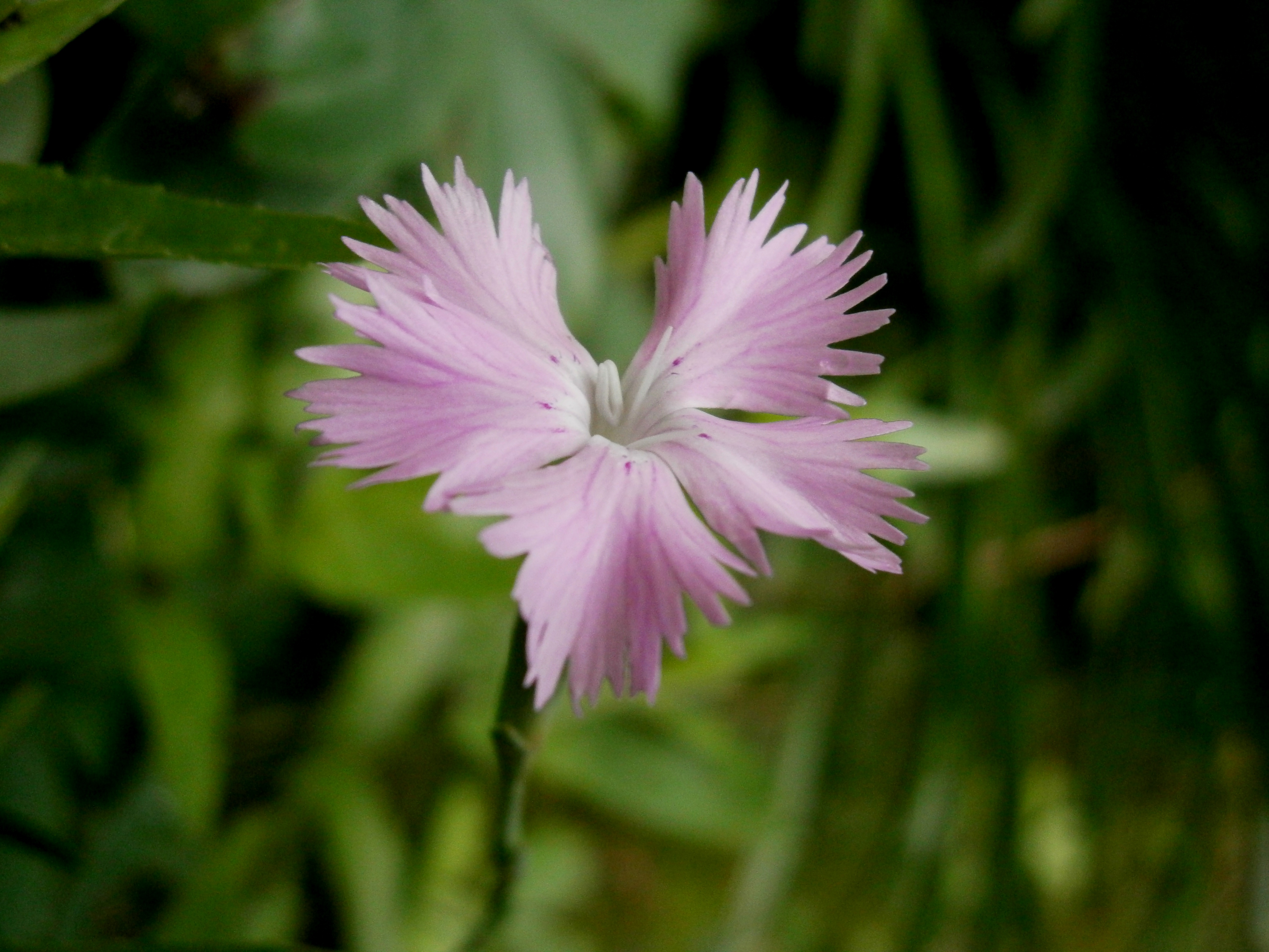 Dianthus gallicus close-up